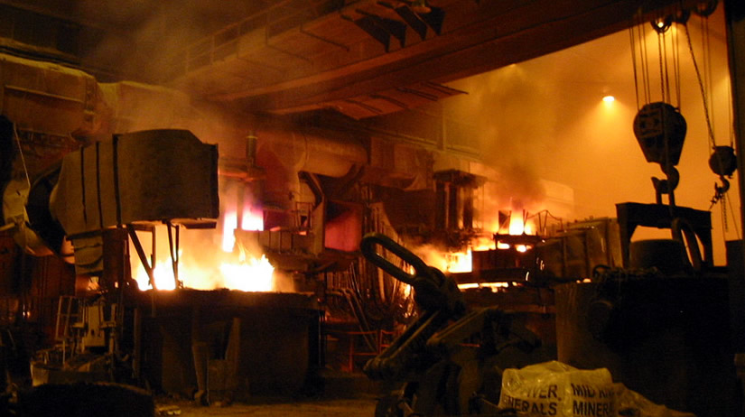 The Finkl steel mill on Cortland